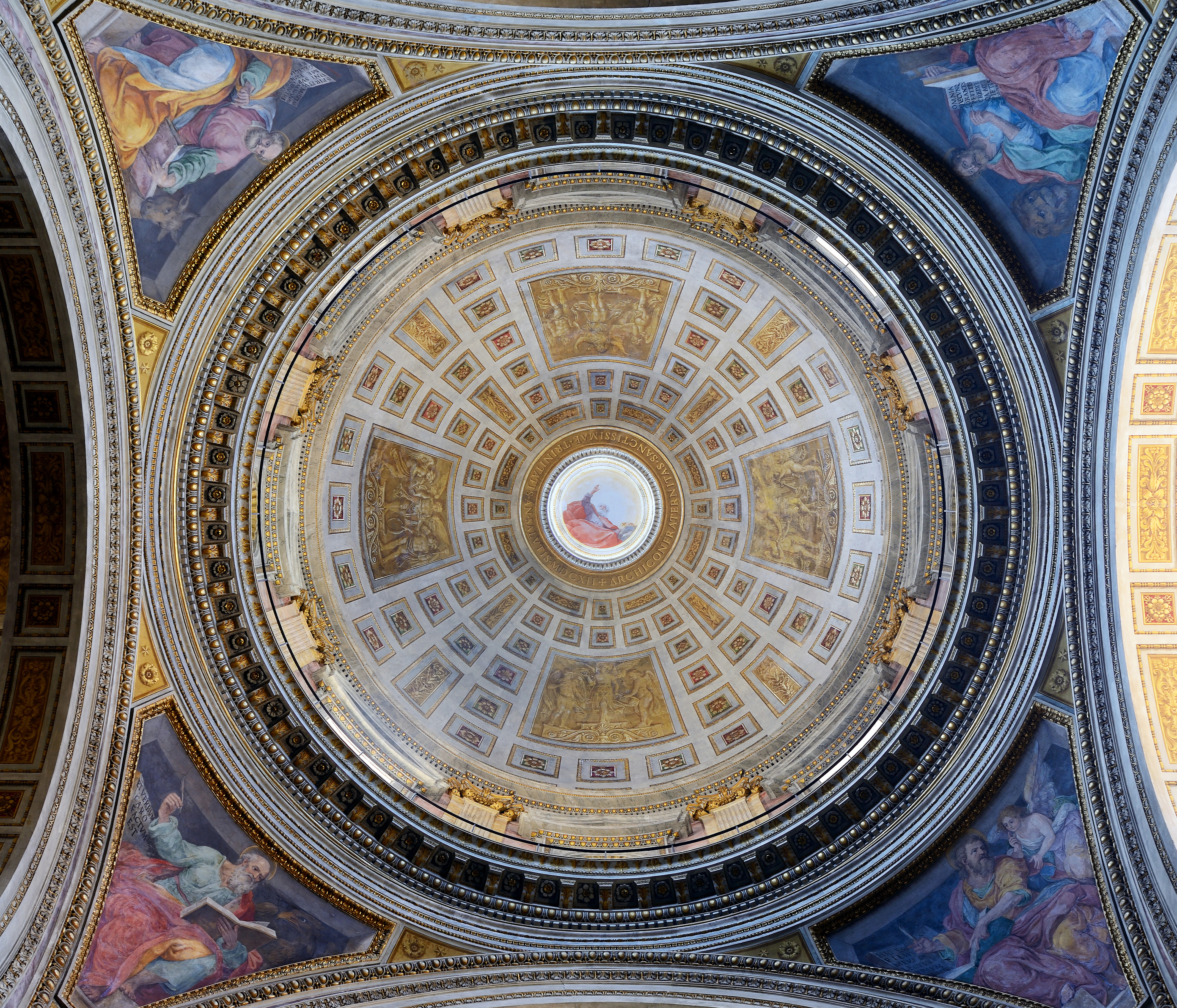 Santissima Trinità dei Pellegrini (Rome) - Dome